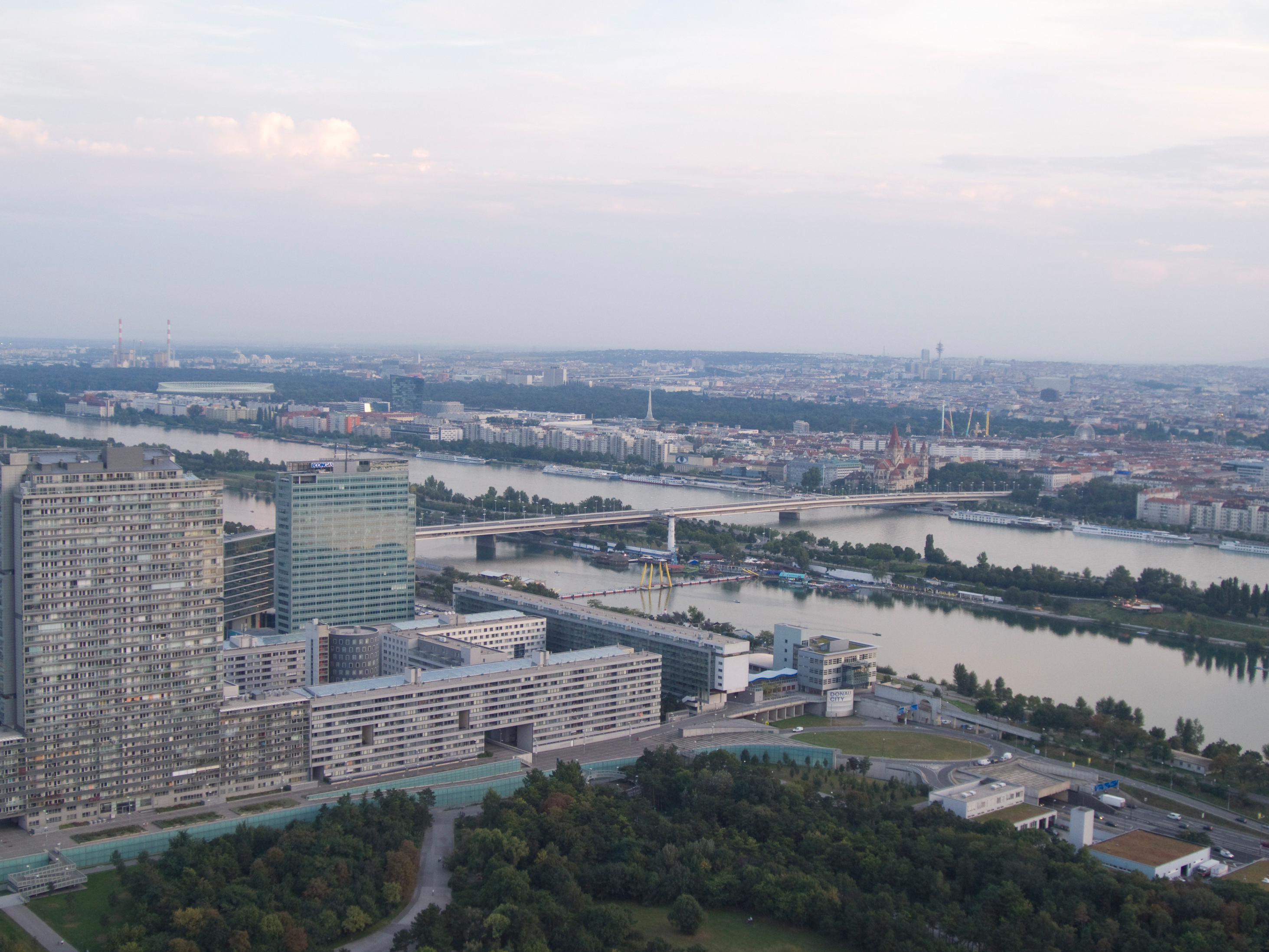 View over Danube Island (Vienna)